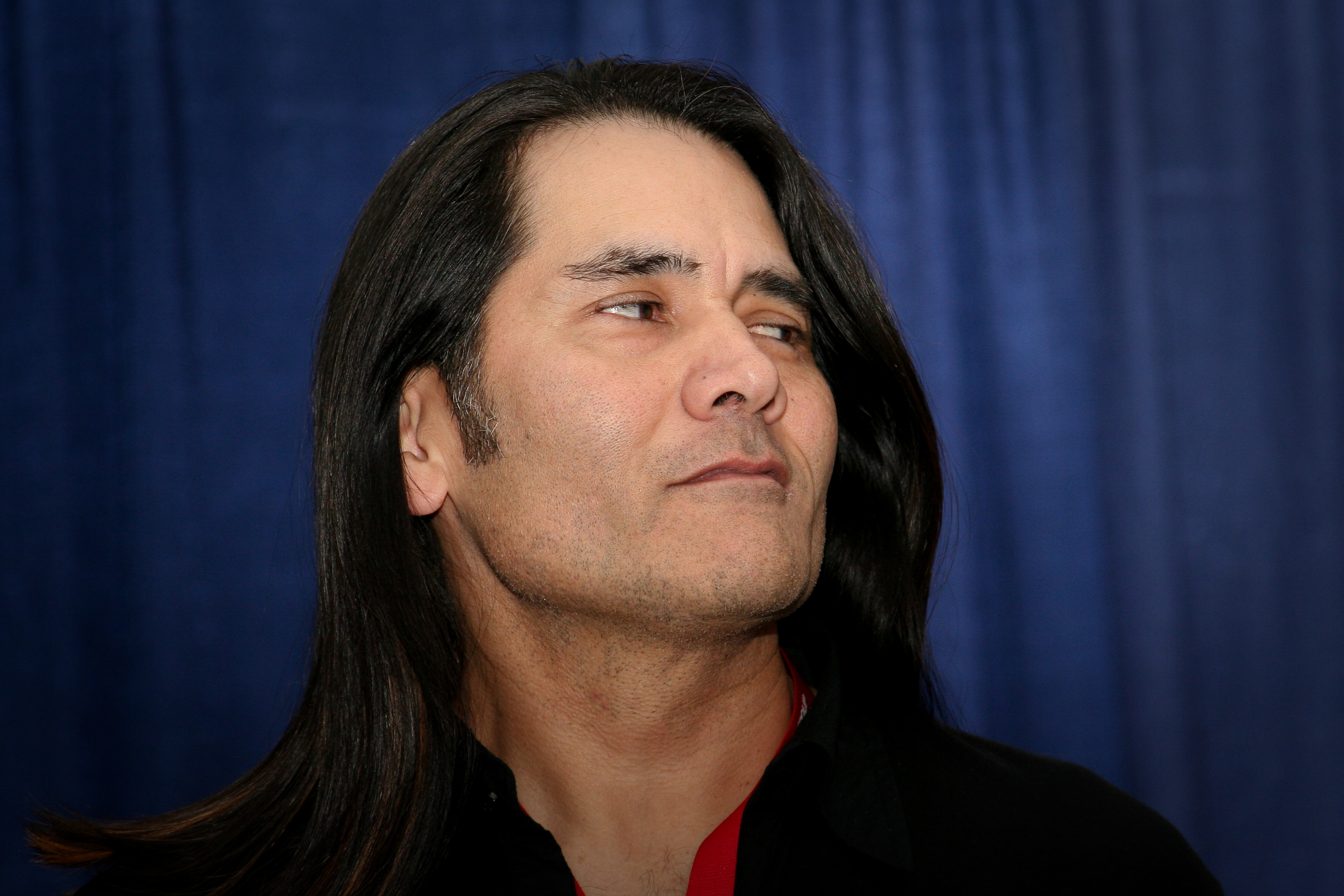 J. Adam Larose, who uses the professional name J. LaRose, is an American actor.